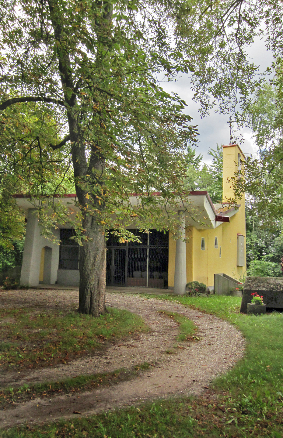 Front view of Dieterskirchel in Rülzheim